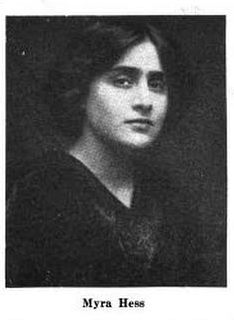 Myra Hess, from a 1921 publication.